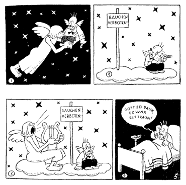 Oscar Jacobsson : Adamson in "Rauchen verboten" ("No smocking")« Gott sei dank, es war ein Traum! » (« Thanks God, it was a dream! »)